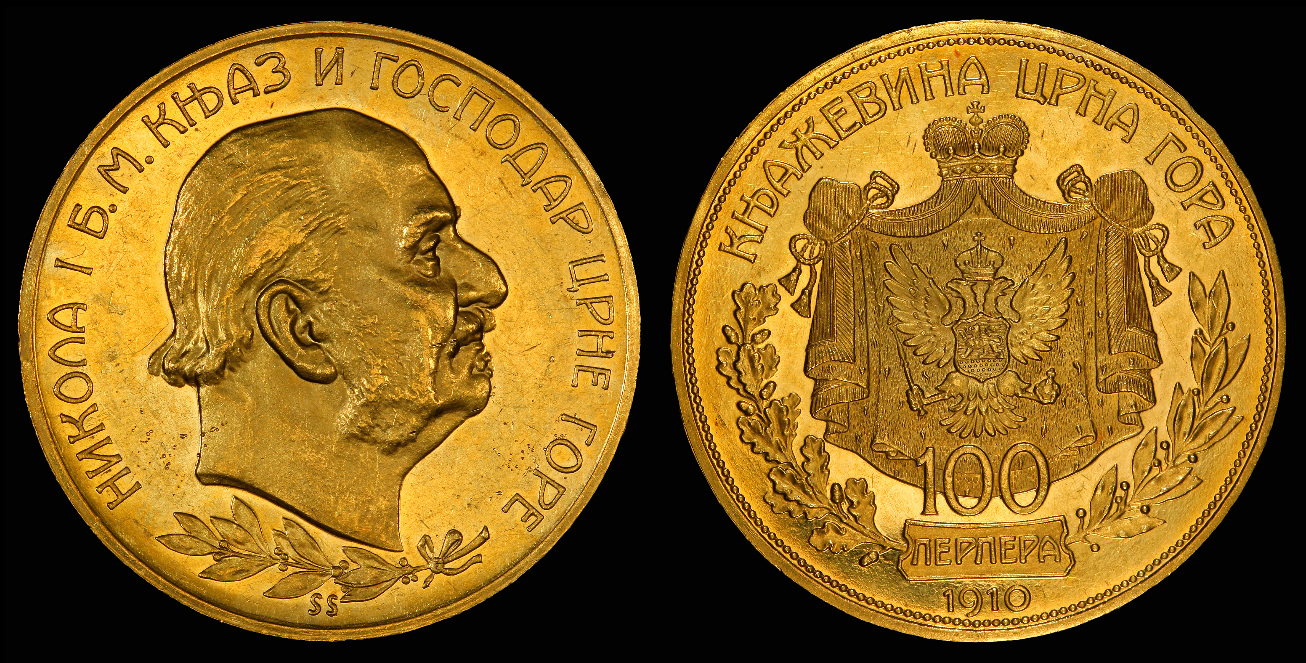 Kingdom of Montenegro, 100 Perpera (1910) depicting Nicholas I of Montenegro the year of his coronation.